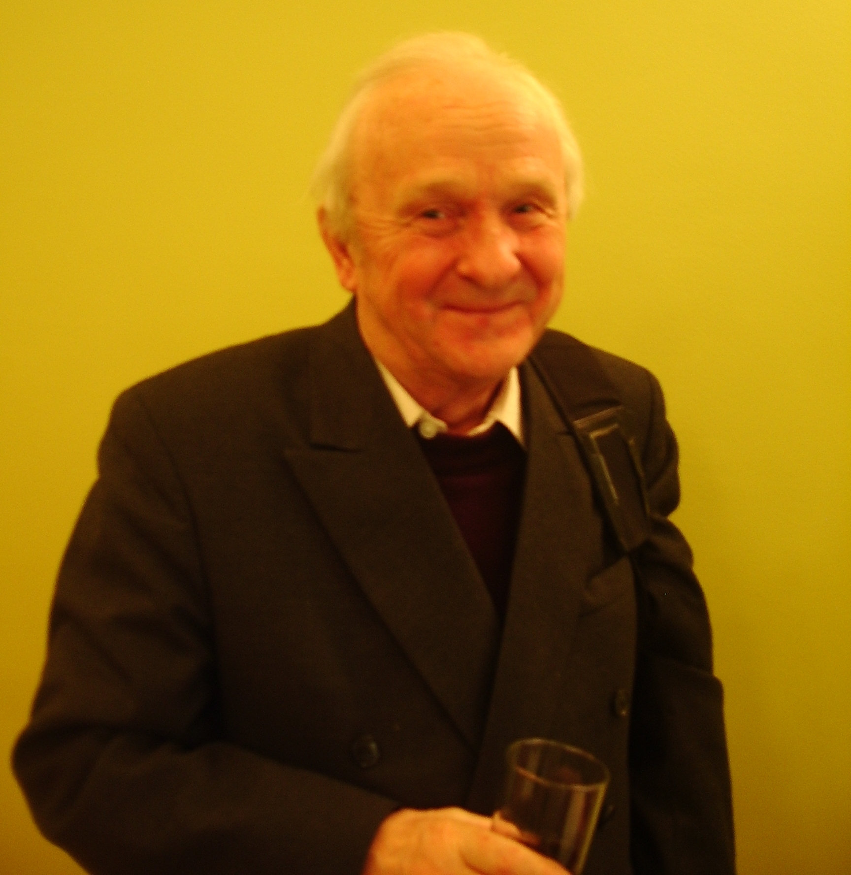 Lembit Peegel (born 1936) is Estonian boxer and photographer.